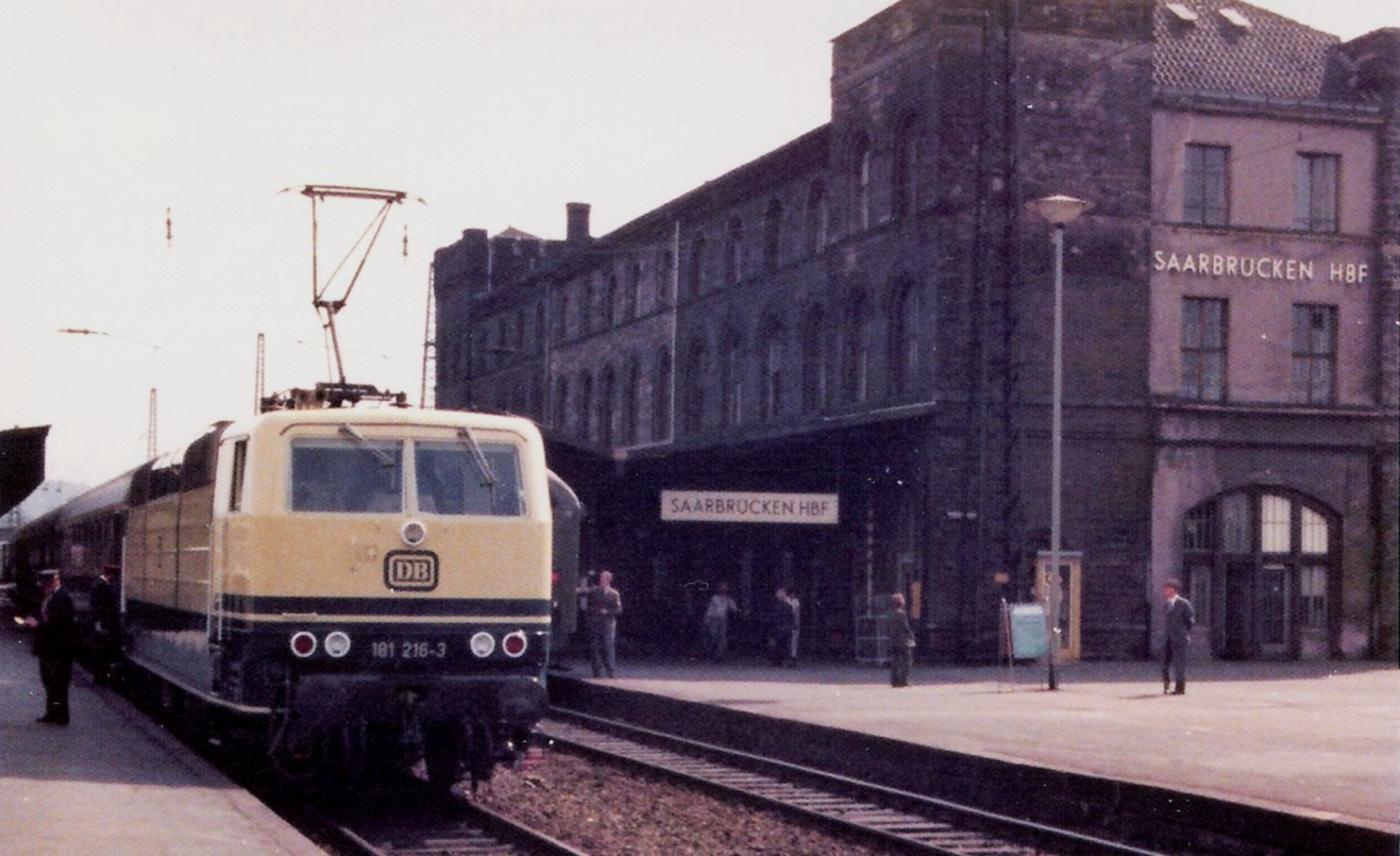 The DB electric locomotive 181 216 in front of the old central station (the "Island building") at Saarbrücken, Germany, in 1975.